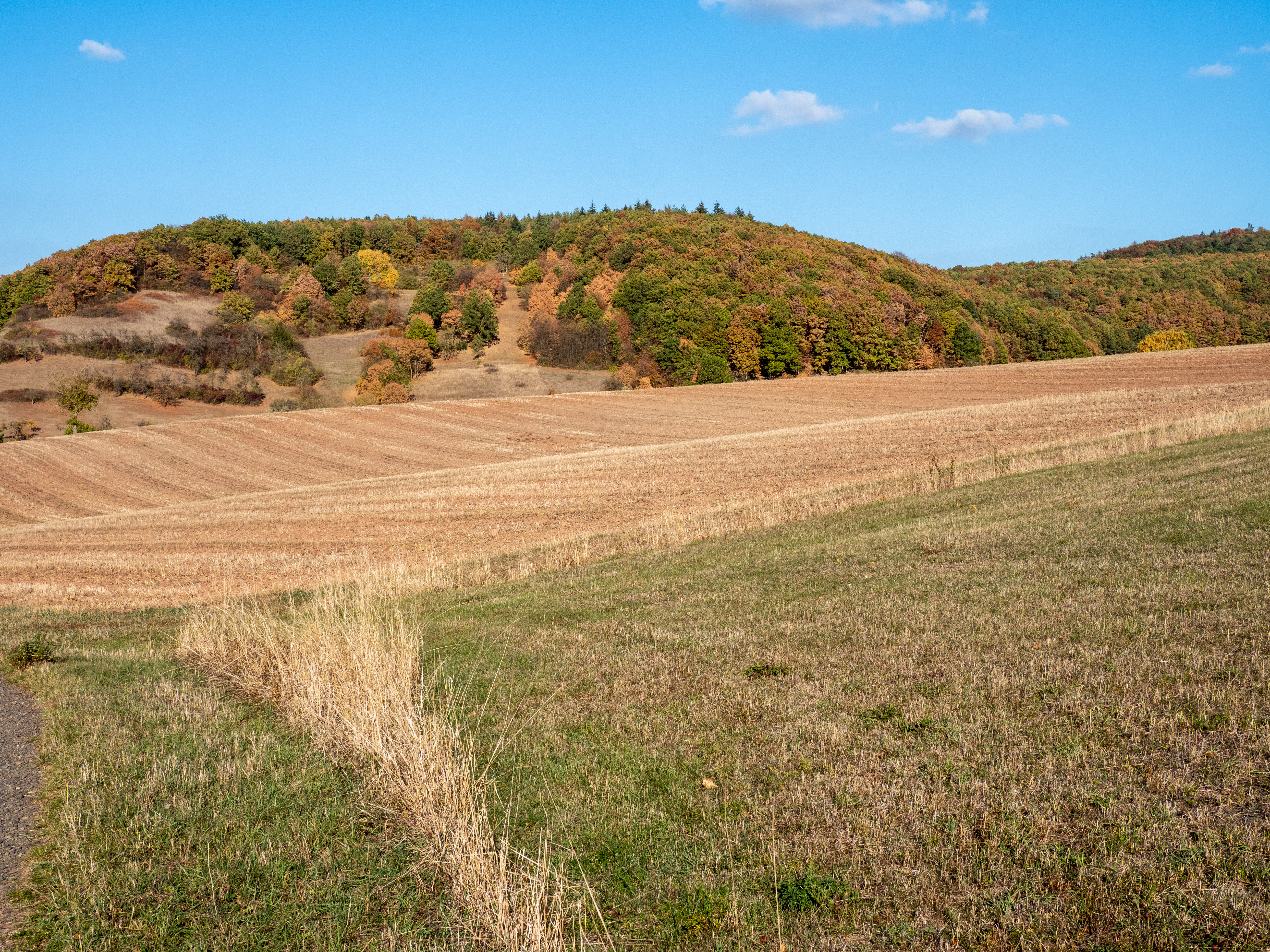 Hills near Sechstahl in the nature park Haßberge